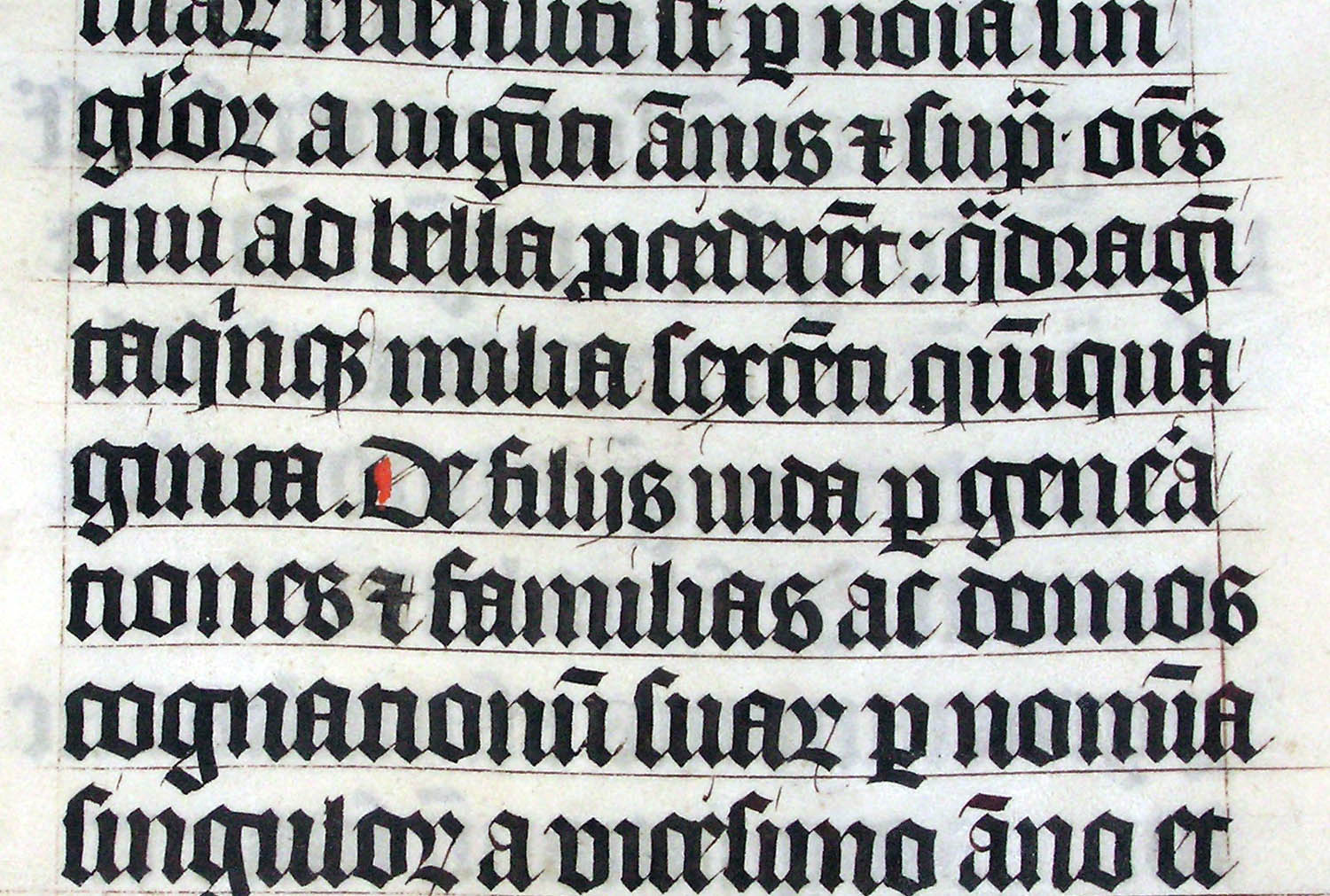 Wikisource has a page about this at: Bible (King James)/Numbers#1:24. Vulgate manuscript: Numbers 1:24-26